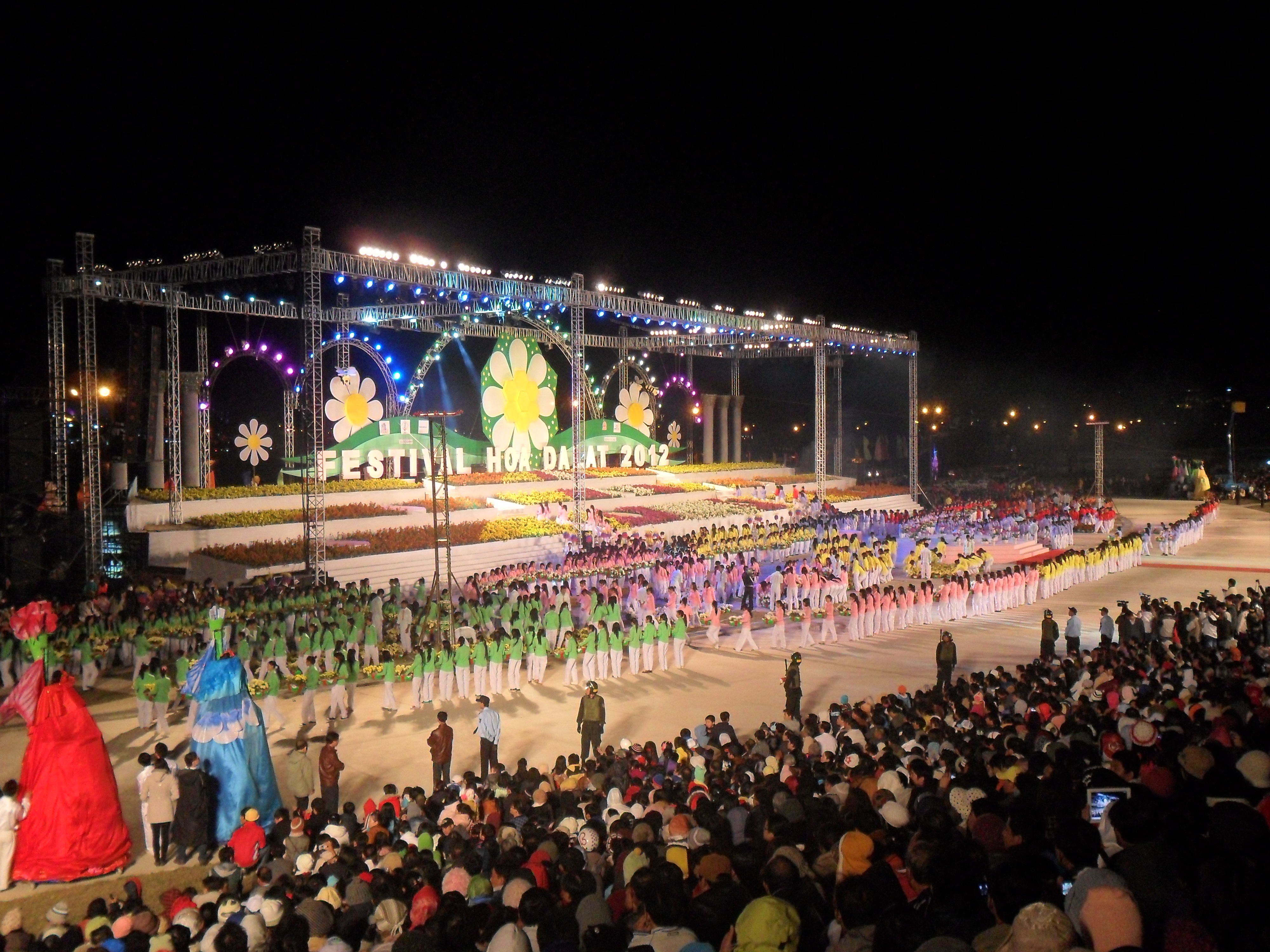 Opening night of Da Lat Flower Festival 2012, Vietnam